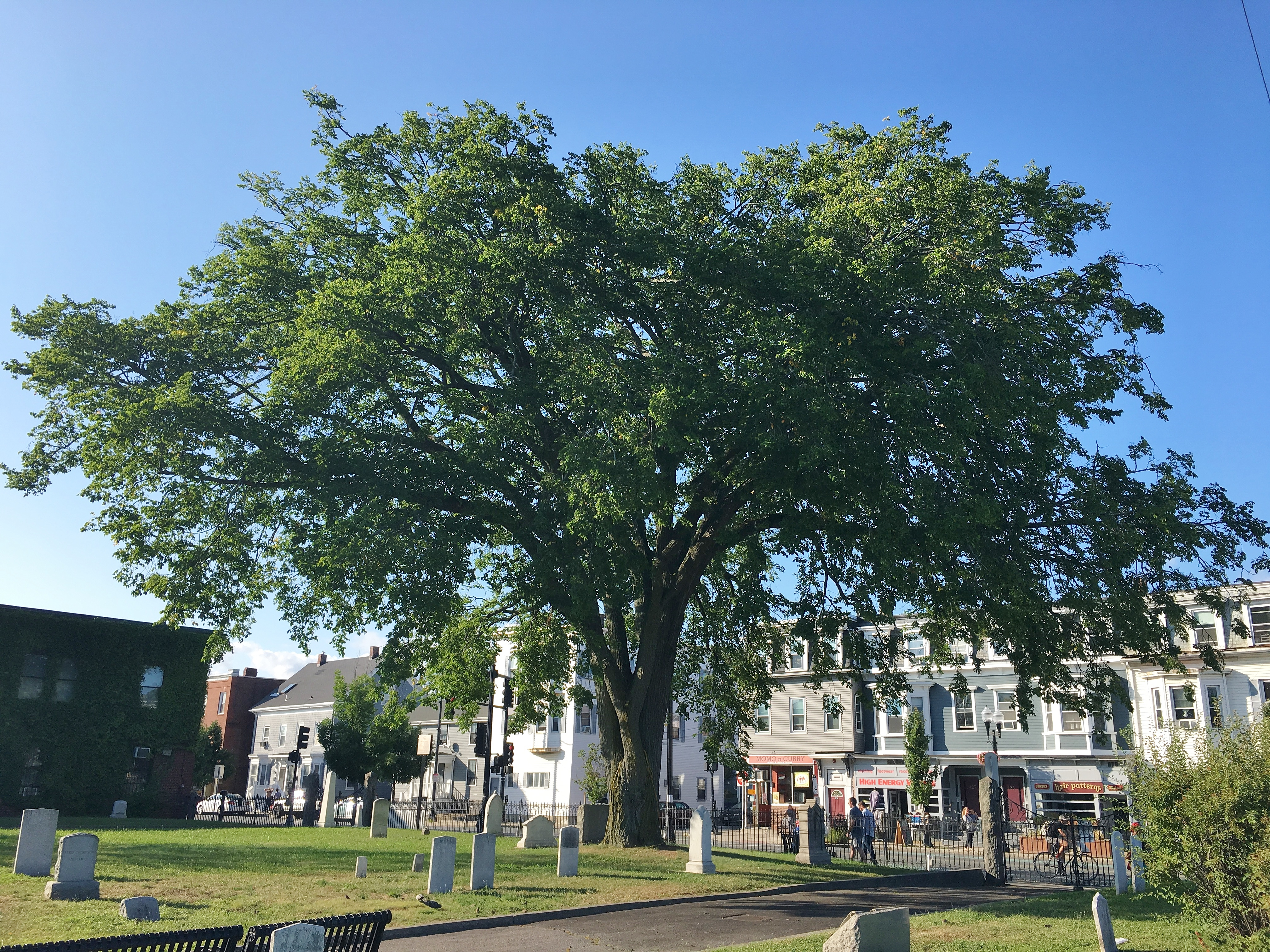 Photograph of an elm tree located in the Milk Row Cemetery in Somerville, Massachusetts, taken in August 2019.